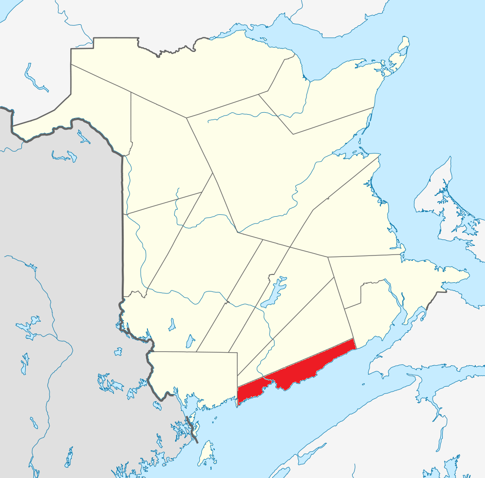 Map of New Brunswick highlighting Saint John County